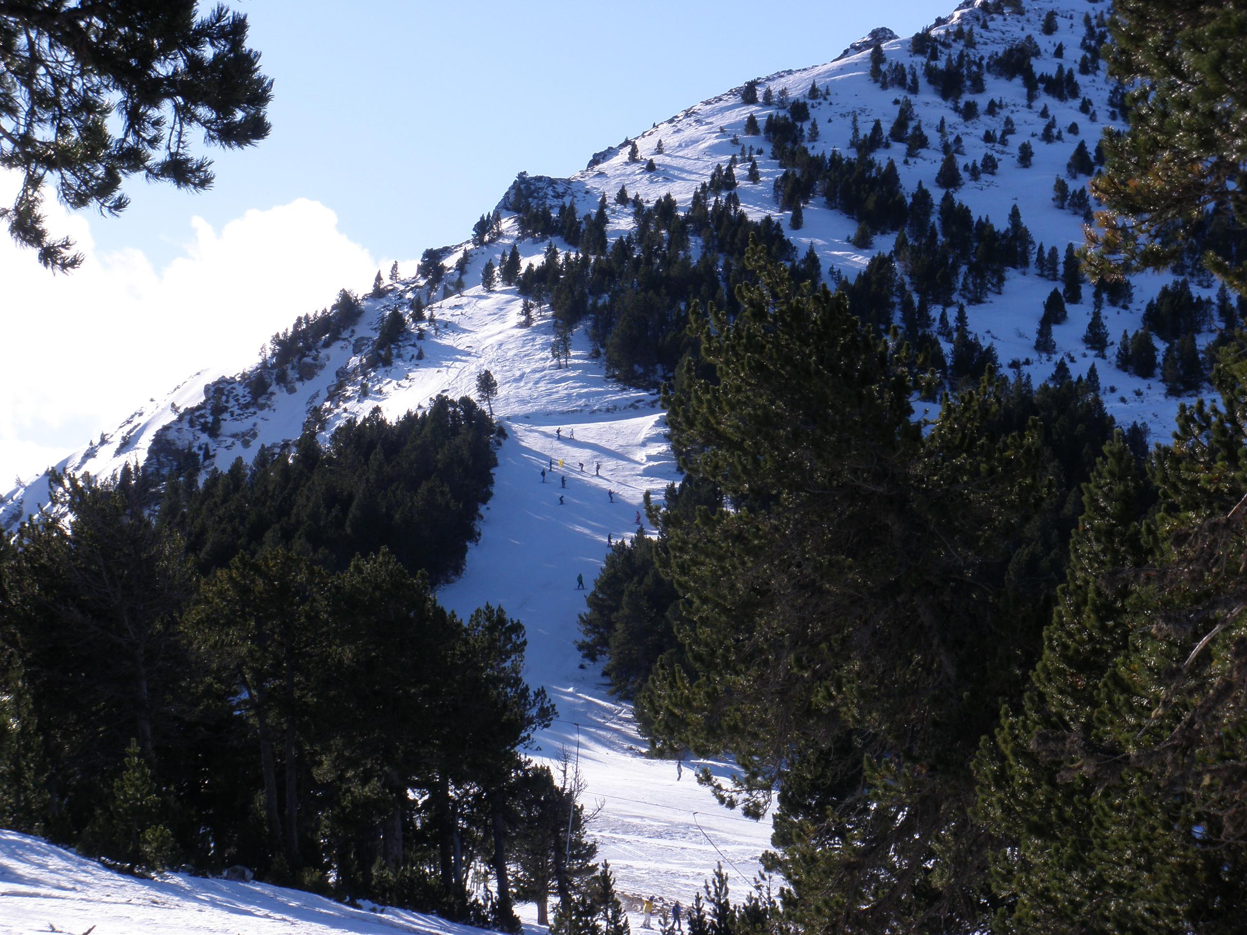 Ax 3 Domaines